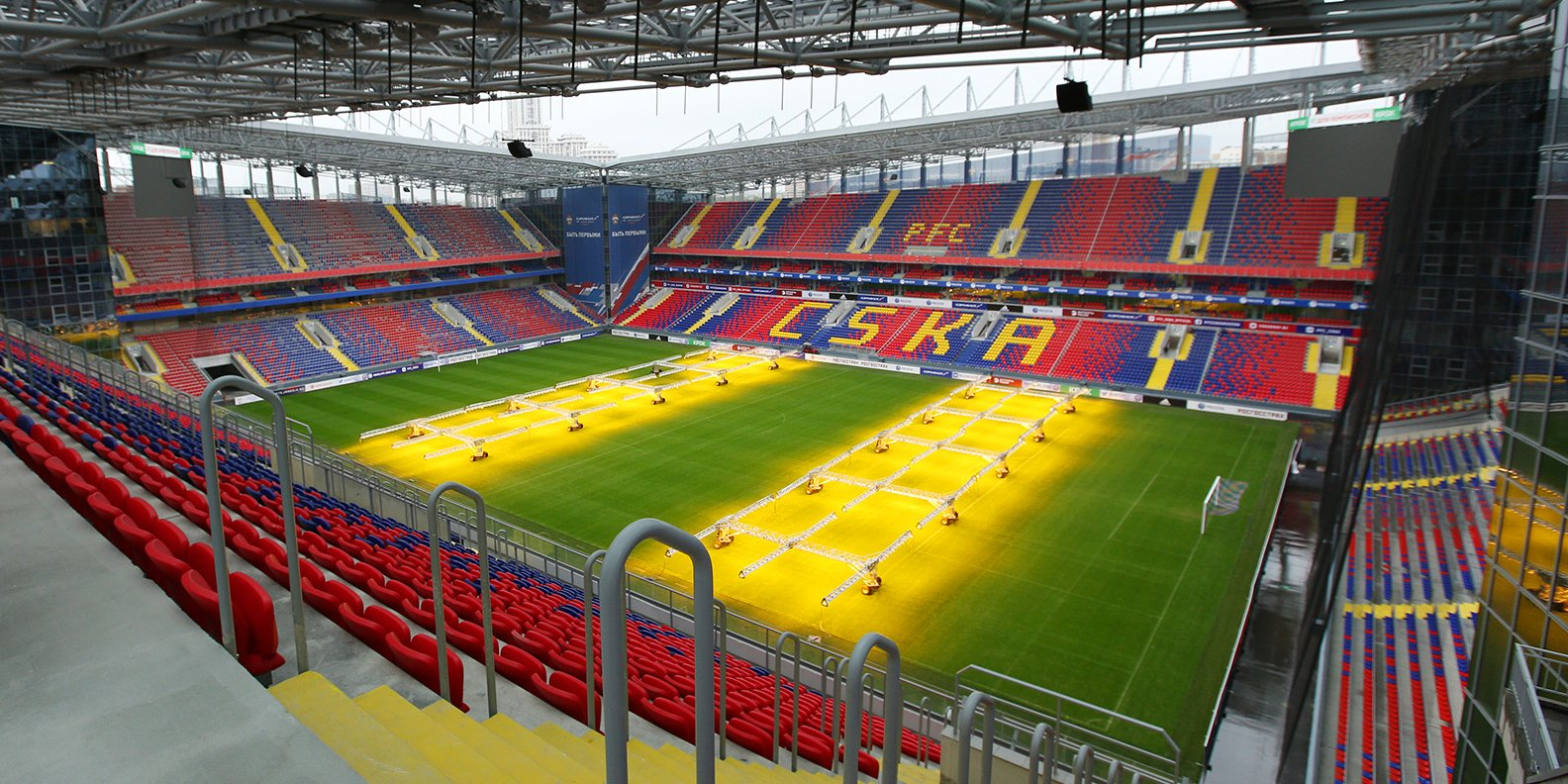 CSKA Moscow Stadium